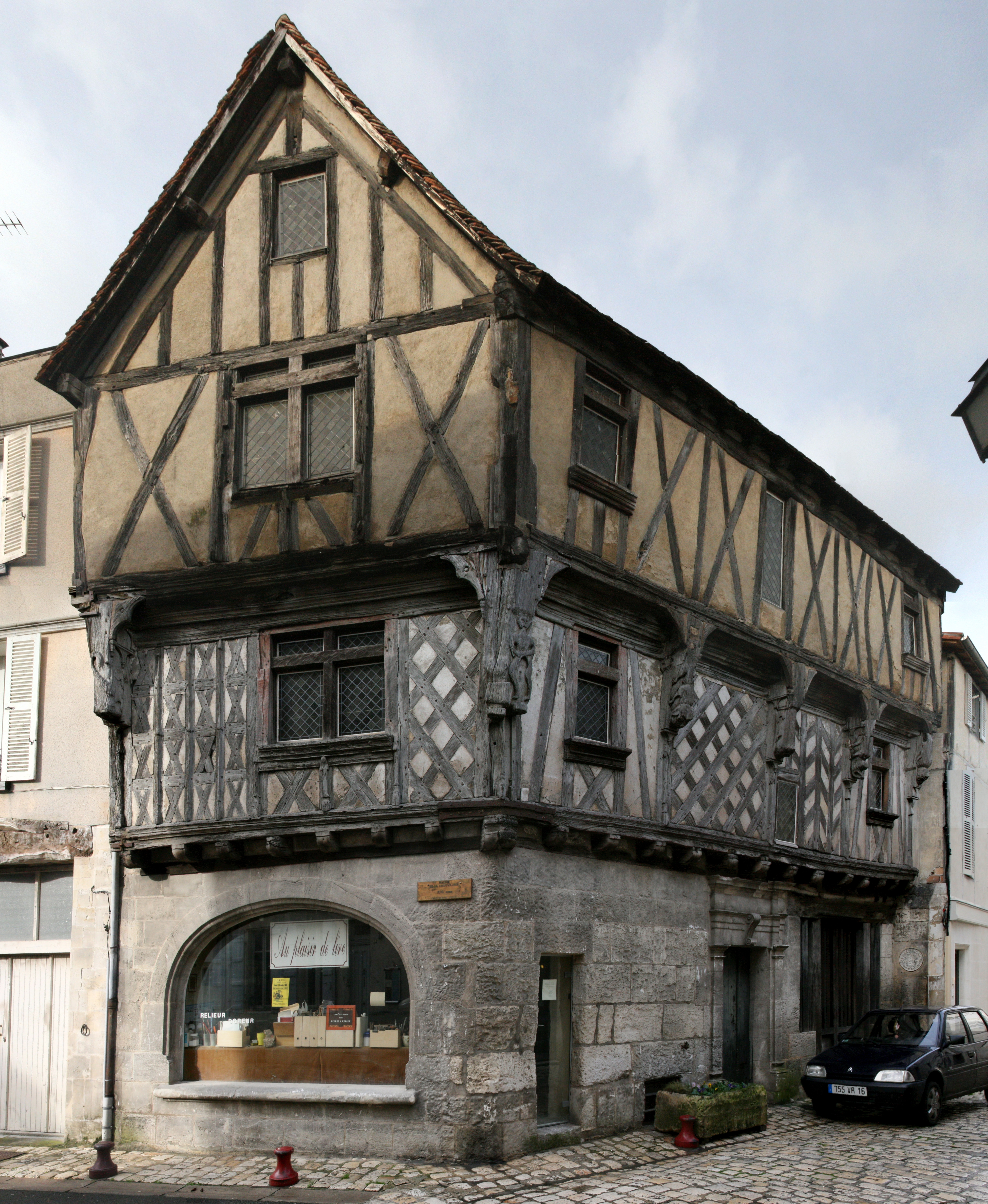 The "Maison de la Lieutenance" (House of Lieutenancy), a 16th century house at 7, Grande Rue, Cognac, Charente, Poitou-Charentes, France.